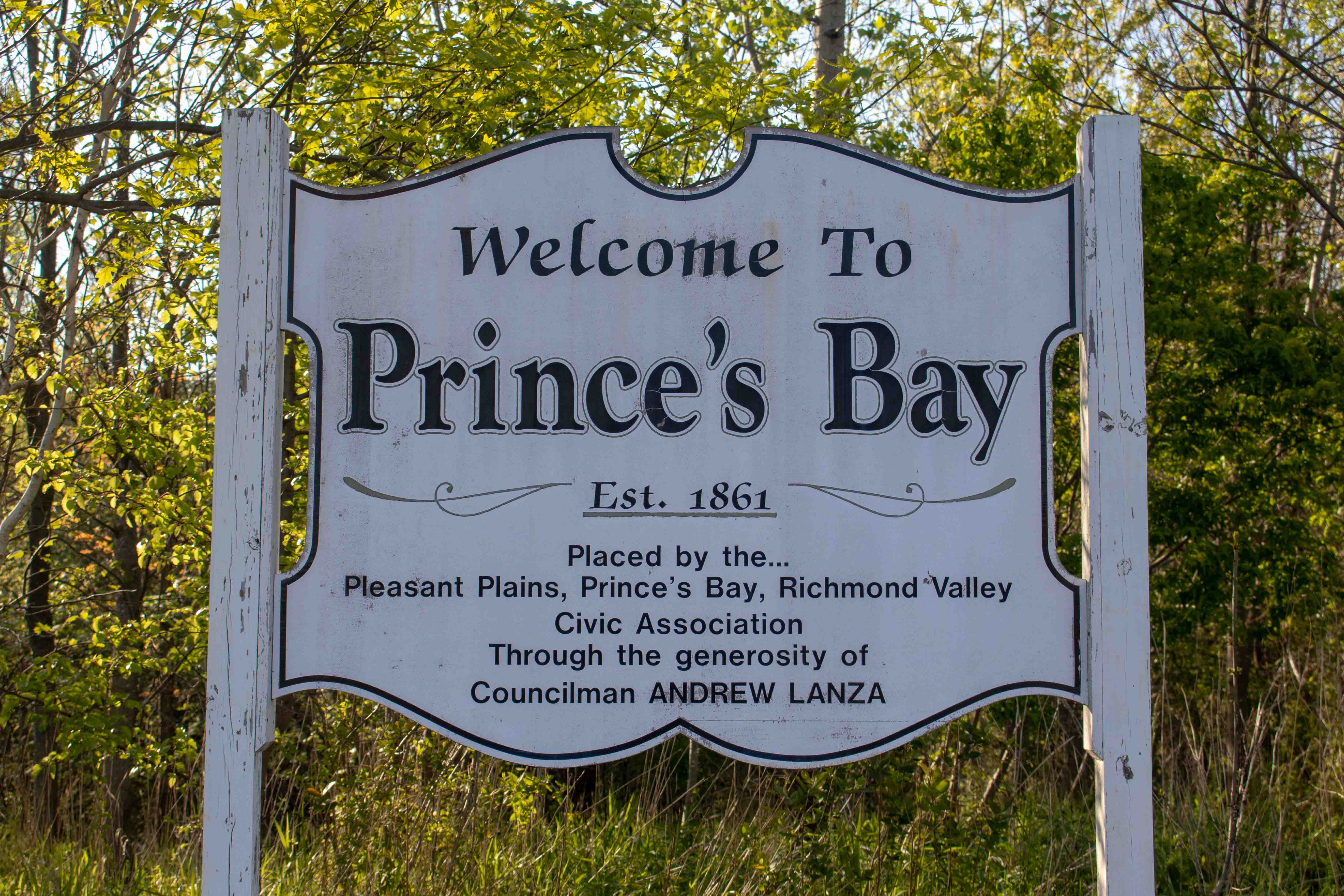 Welcome sign located in Prince's Bay, Staten Island, New York at the intersection of Amboy Rd and Seguine Avenue